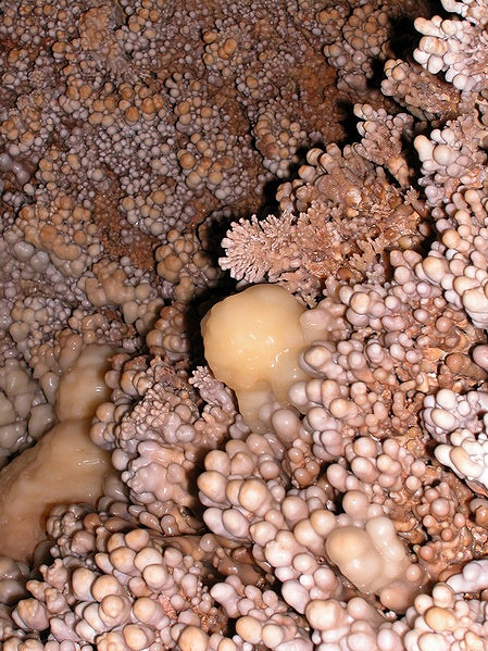 Speleothems in Nagyharsány Crystalcave (Hungary)